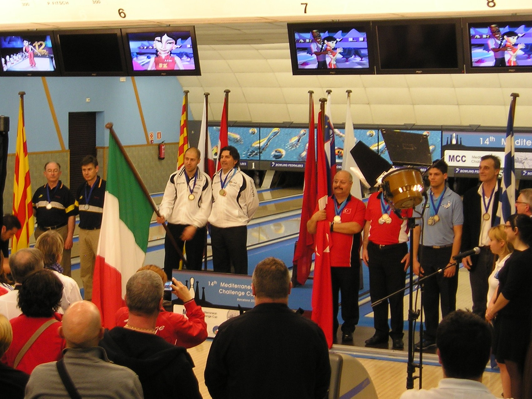 2011 Mediterranean Challenge Cup in Barcelona (Catalonia). Medal ceremony - Masters Men